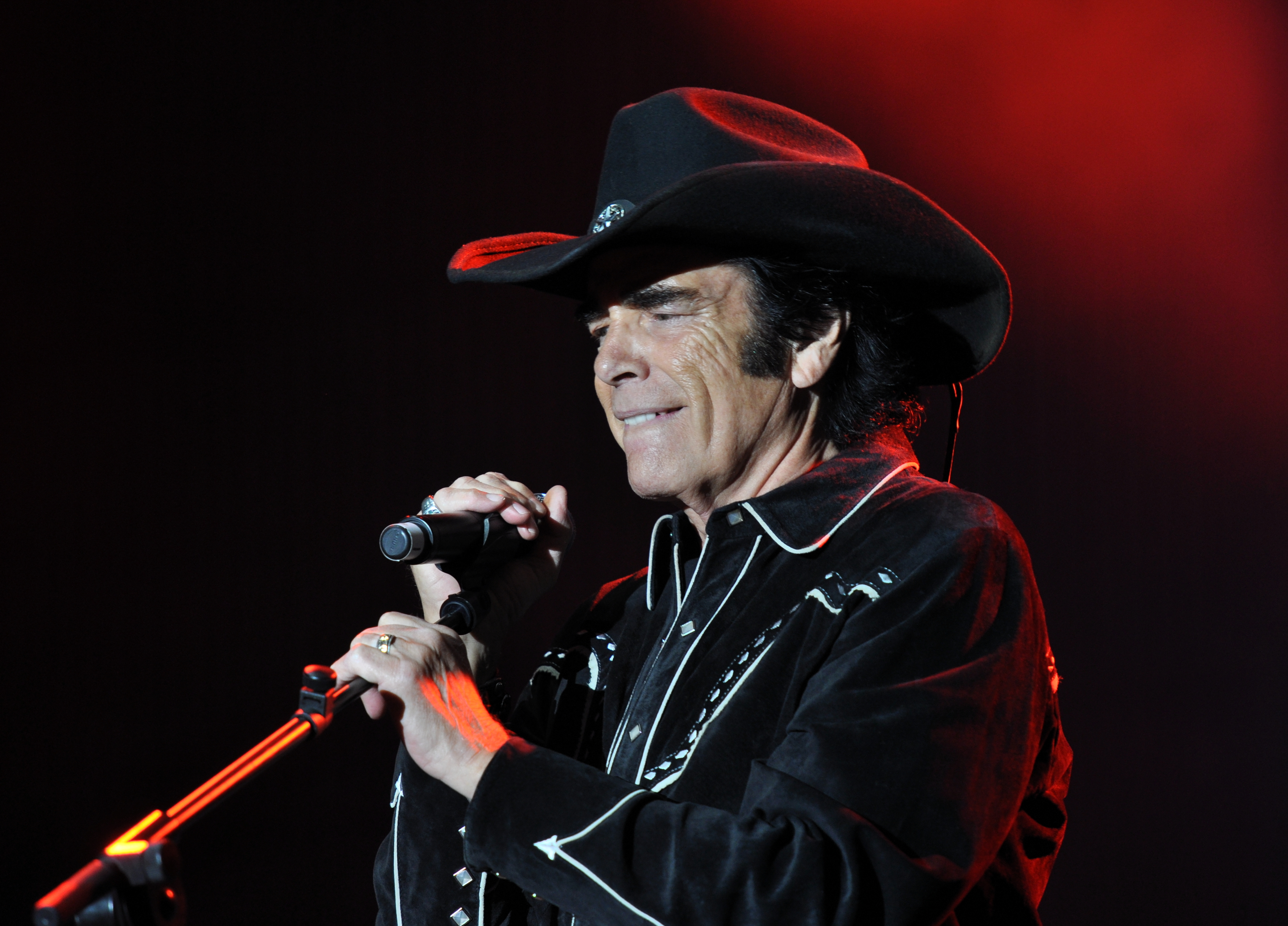 German country singer Tom Astor at the International Truck Grand Prix Country Festival 2013, Nürburgring, Germany